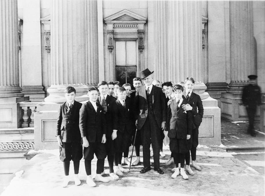 Vice President Marshall will entertain the pages of the Senate at a Christmas party. Photo shows the Vice Pres. and the pages with whom he is very popular on the steps of the Capitol.